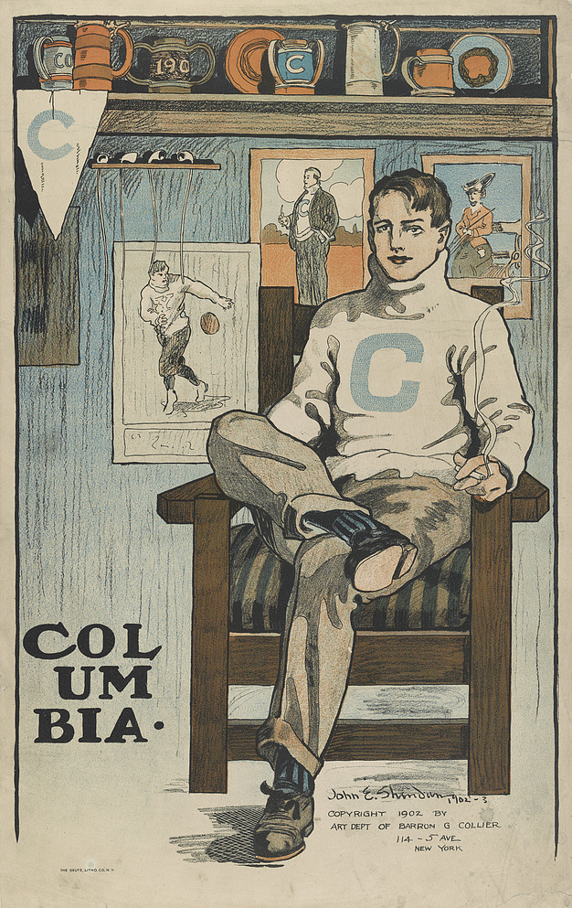 A classic 1902 college poster for Columbia University. A new century was in progress and this poster captured the life of a college student of the era. An undergraduate student is captured in a white turtleneck with the Columbia “C” on the front. He is seated in a chair smoking a cigarette. On a wall behind are three pictures—one of an athlete, one of an older person, perhaps a father, who is wearing a similar sweater, and a picture of a woman, perhaps a girlfriend or mother. On a shelf above him are a collection of tobacco pipes, plates and beer mugs, and a Columbia pennant. This poster was done by John E. Sheridan, one of a small group of illustrators who brought style and talent to the art of posters. Mr. Sheridan produced covers for The Saturday Evening Post and other magazines. Deutz Lithograph Co., New York, produced the original photolithograph on which this digital reprint is based.